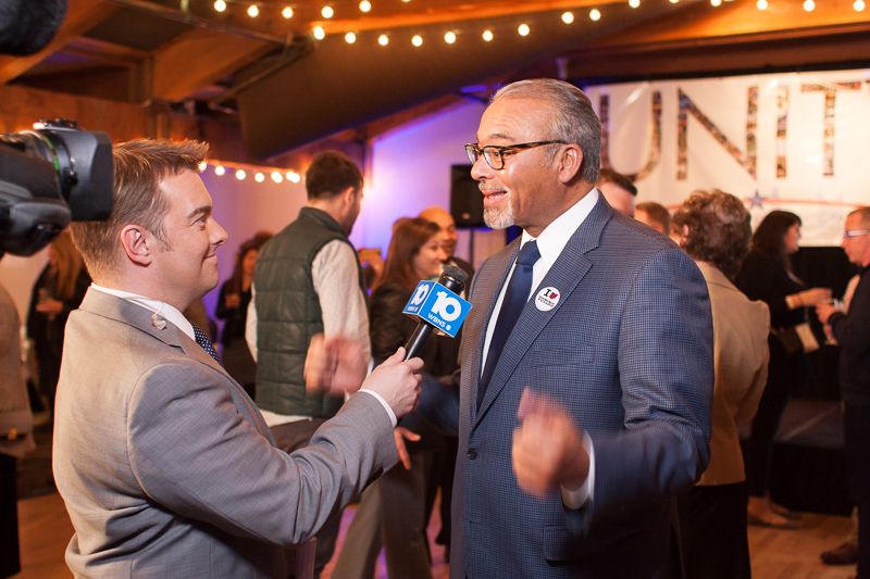 Former Columbus, Ohio Mayor Michael B. Coleman speaks with local media during a Democratic primary election event on March 15, 2016.